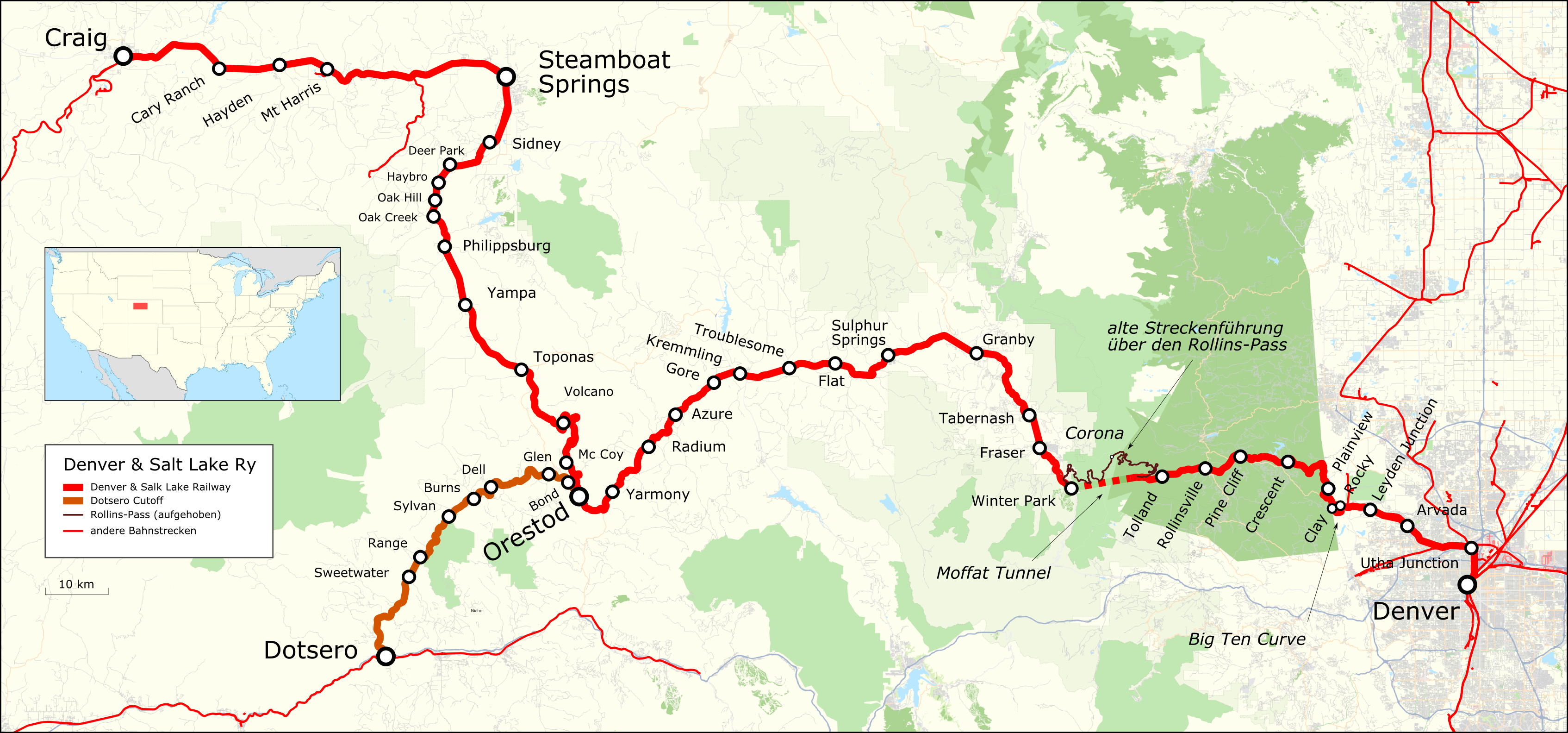 Map of Moffat Route as built by the Denver and Salt Lake Railway and Denver & Rio Grande Western Railroad. Map key in German.